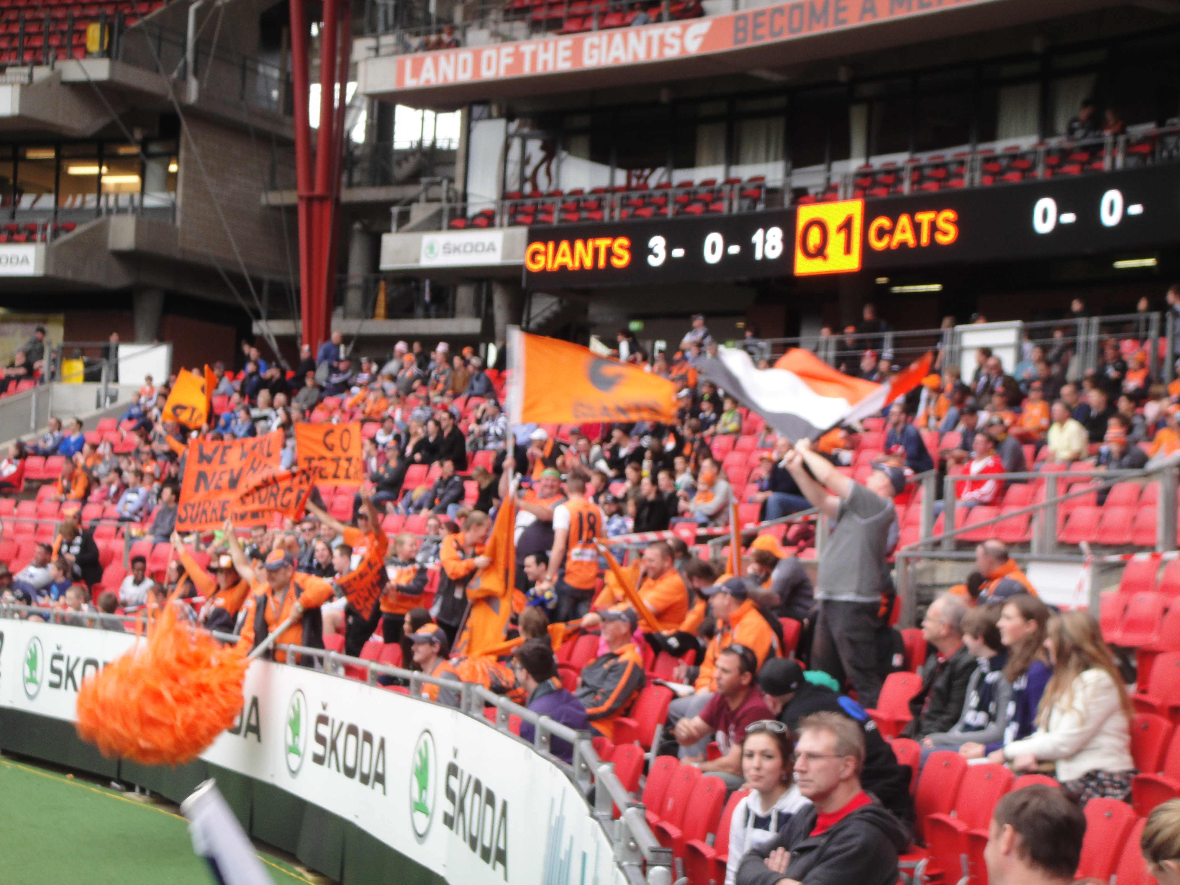 The GWS Giants cheer squad in full voice during a match against Geelong in June 2013.